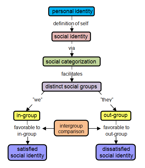 Tajfel's Theory of Social Identity